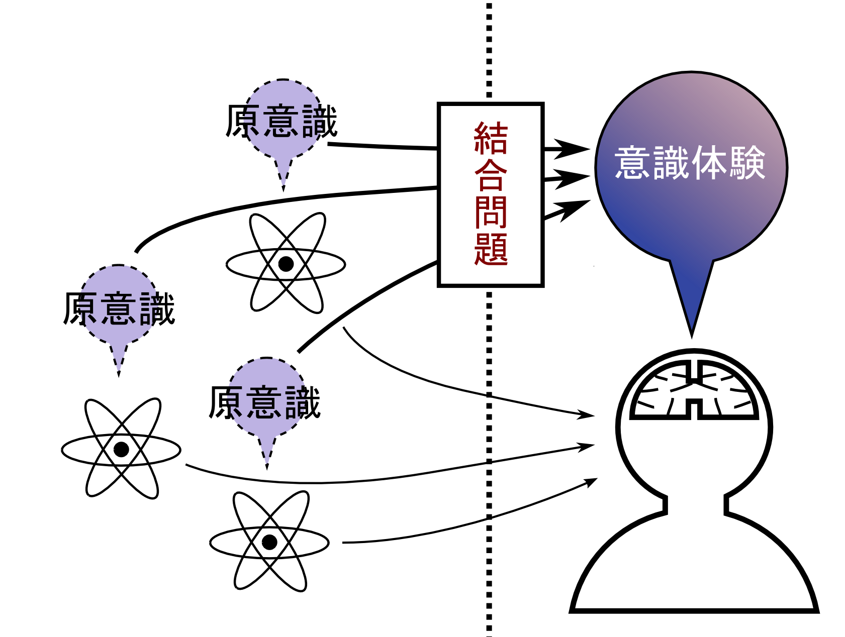 Combination problem, One of the philosophical problem concerned with panpsychism, defined by William Seager. See Seager, W. (1995) Consciousness, Information adnd Panpsychism. Journal of Consciousness Studies 2, 3, 272-288.